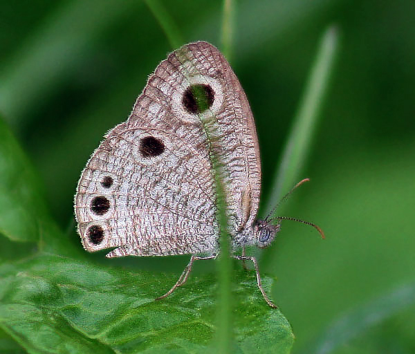 Common Fourring Ypthima huebneri in Kolkata, West Bengal, India.